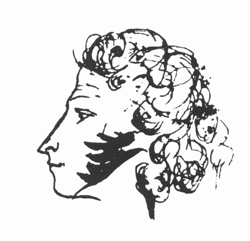 Russian poet Alexander Pushkin (1799-1837), selfportrait